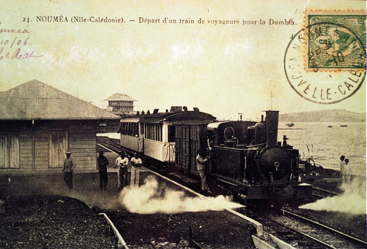 Former railway station around 1910, Nouméa, New Caledonia